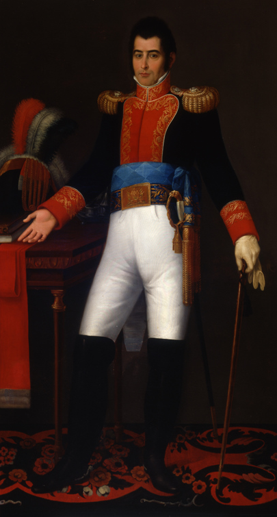 Portrait of Guadalupe Victoria (1786-1843)